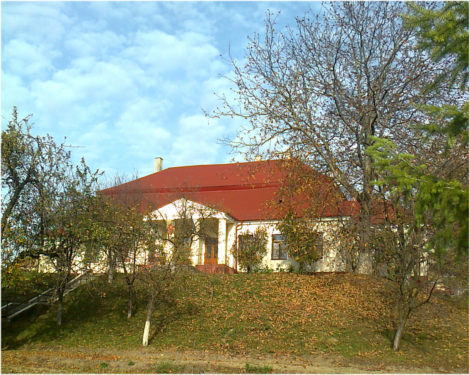 Bánffy Castle in Boghiș (Romania)